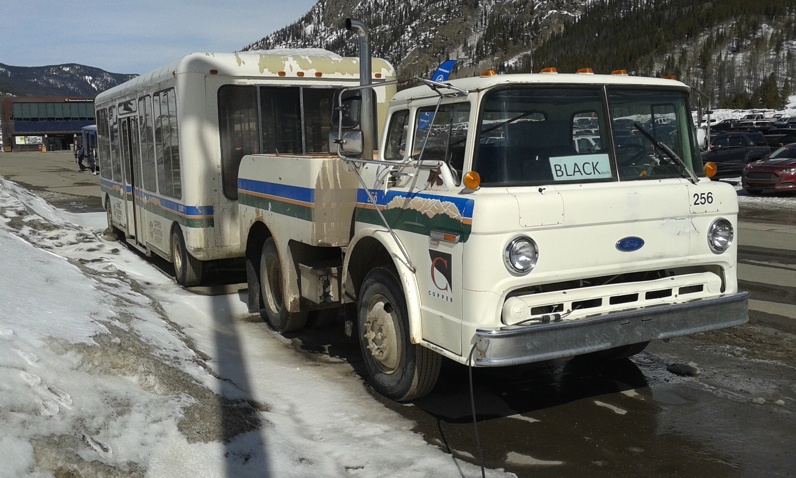 Cab over Ford truck No. 256 and wagon(bus trailer) at Copper Mountain.